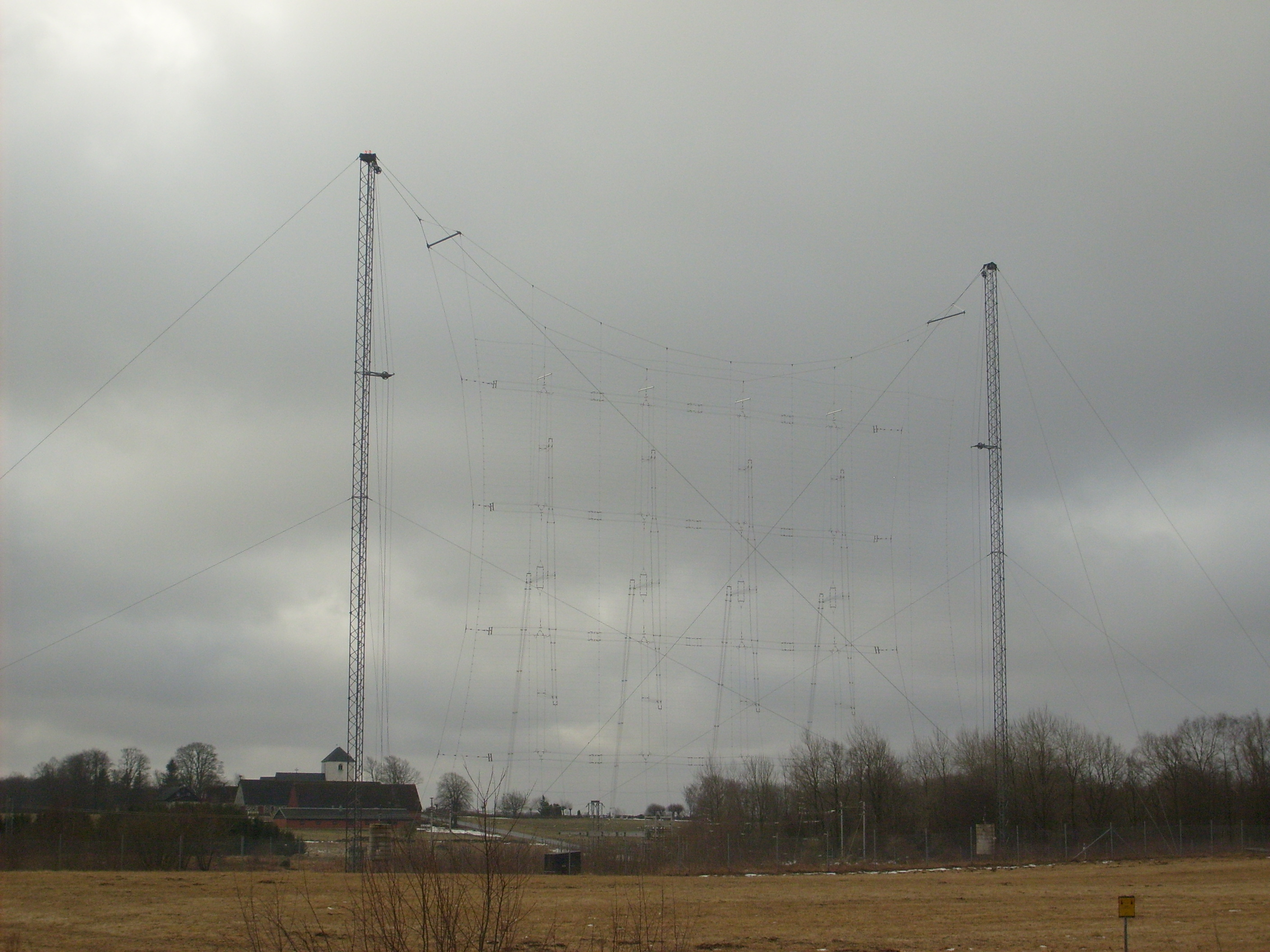 Antenna "G1" at Hoerby Shortwave Station in Sweden. This is a curtain antenna, consisting of 16 vertical wire half wave dipole antennas suspended in a 4x4 rectangular array, in front of a plane reflector consisting of a screen of many parallel vertical wires. These are suspended from support wires stretching between the two steel masts. This antenna is used to broadcast to large areas thousands of miles away, around the curve of the Earth, by skywave ("skip") propagation. It radiates a powerful beam of radio waves at a shallow angle into the sky, where it is reflected back to Earth by the ionosphere beyond the horizon. Hoerby shortwave station, operated by the national broadcasting organization Sveriges Radio (Radio Sweden) was shut down 30 October 2010 due to a decision to concentrate on internet broadcasting.